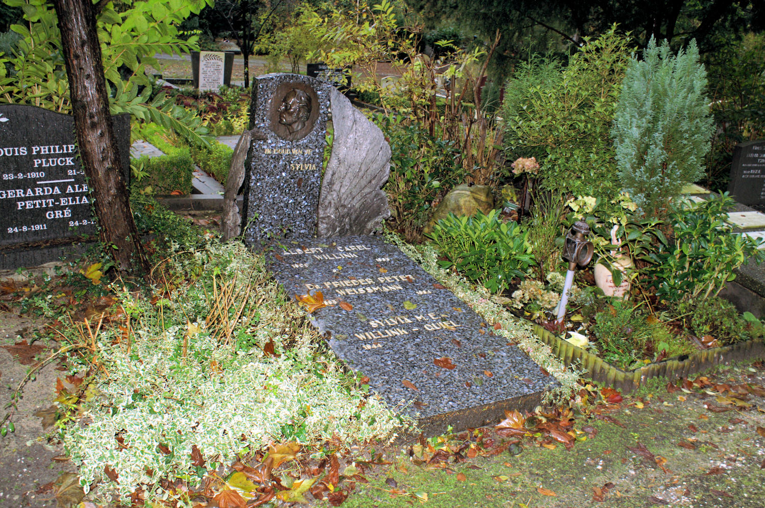 Grave of Dutch painter Albert Carel Willink and German composer Frieder Weissmann at Zorgvlied cemetery, Amsterdam, The Netherlands